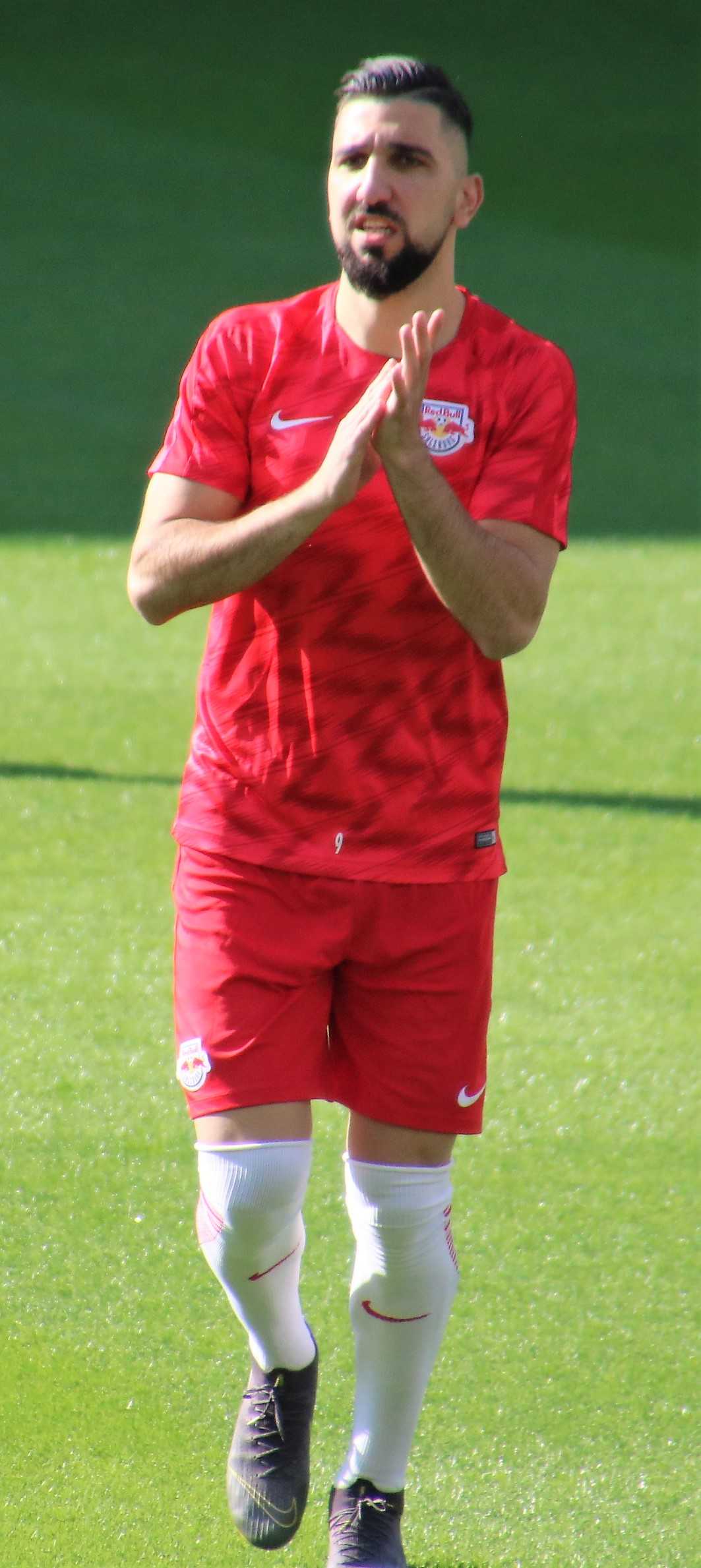 Austrian Bundesliga league match round 23